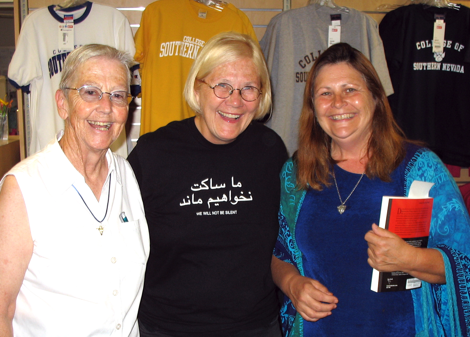 Megan Rice, Ann Wright, Candace Ross in Las Vegas after a book release event for Ann Wright's book